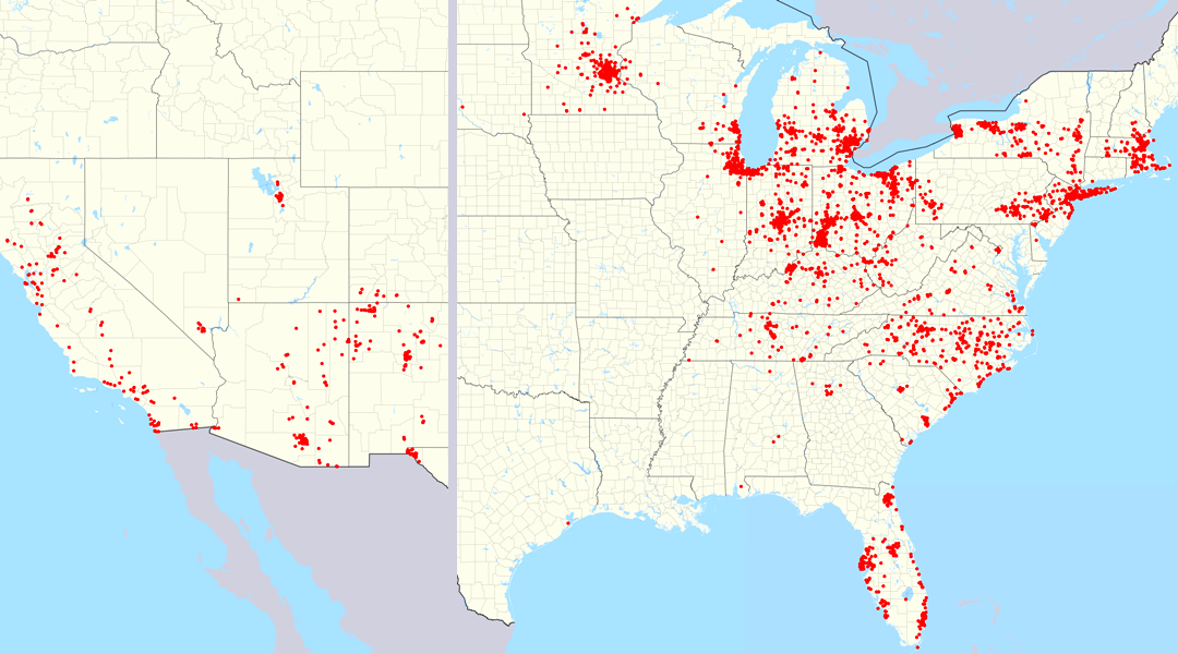 Geographic footprint of Speedway's 3402 locations as of 2020 August